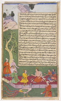 "Krishna meets with King Yudisthira; Geruda Arrives to Transport Krishna and His Companions, the Ladies Kunti and Subhadra," watercolor and gold on a page from a dispersed Persian "Razmnama (Book of Wars)" manuscript, dated 1616-1617.